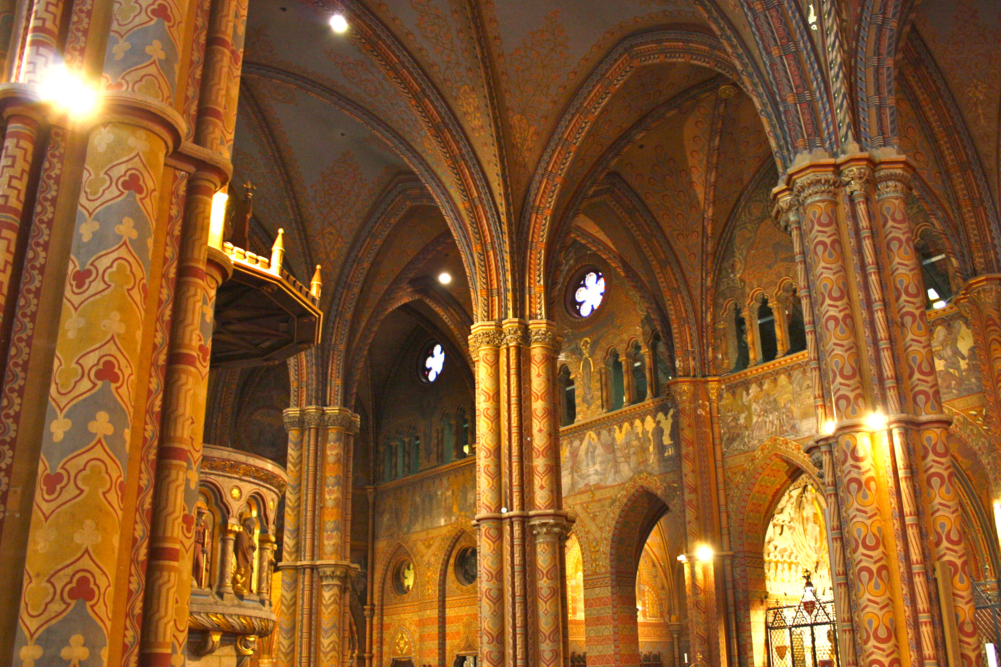 Matthias Church, Budapest.